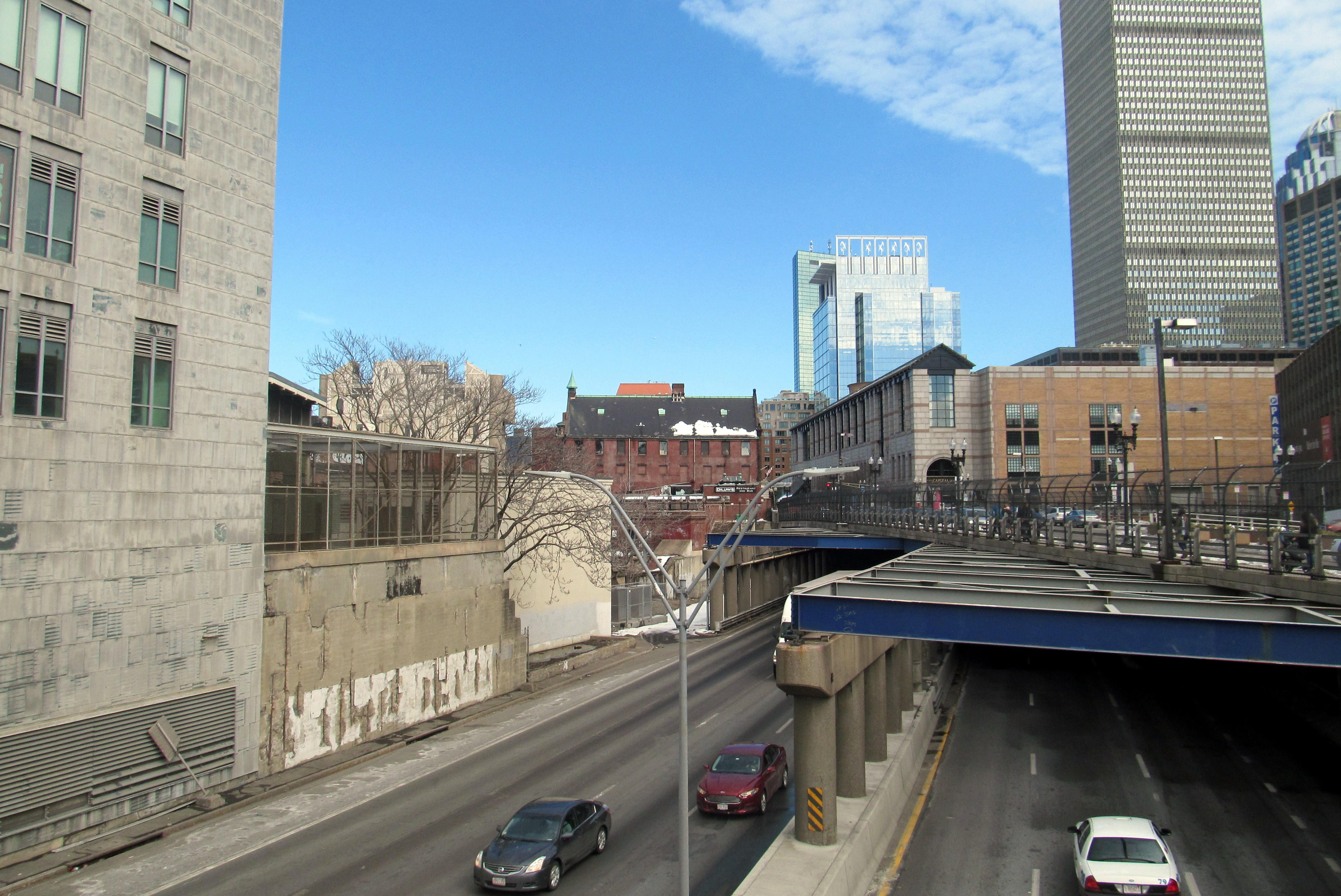 MassDOT Parcel 13 air rights site next to Hynes station in March 2017